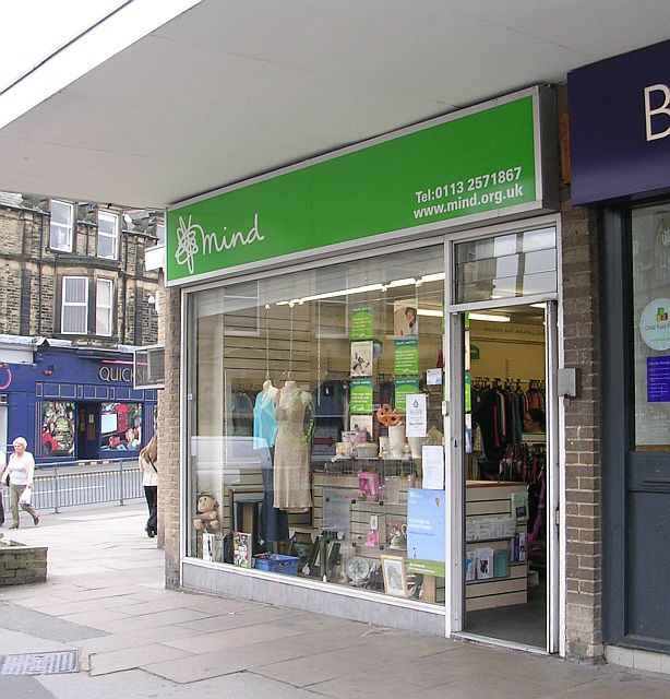 Mind - Lidget Hill